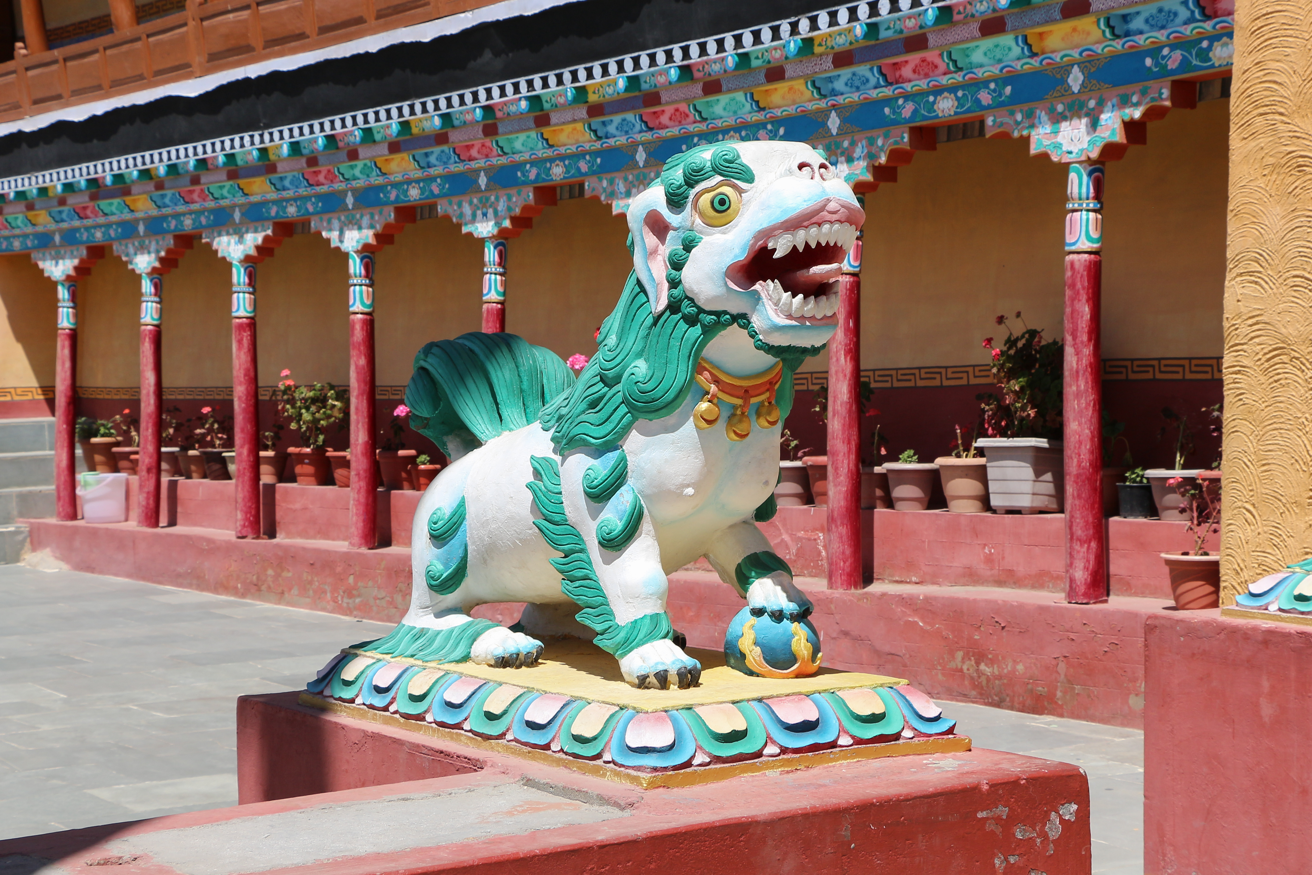 Snow Lion at Thiksey Monastery, Ladakh, India